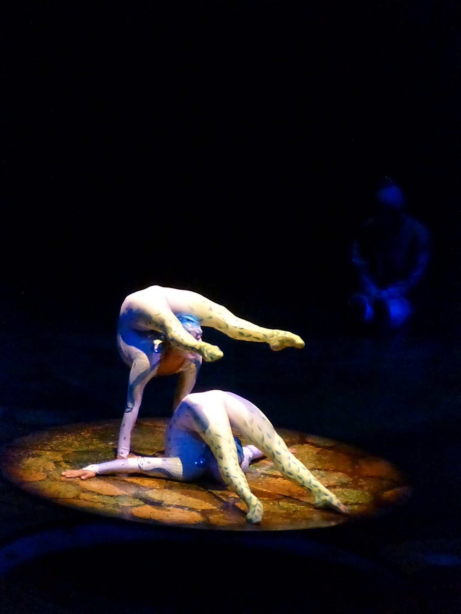 Two Contortion artists create graceful and lithe figures and movements with their extreme flexibility and balance. Cirque du Soleil 2012 Alegría, Istanbul, Turkey